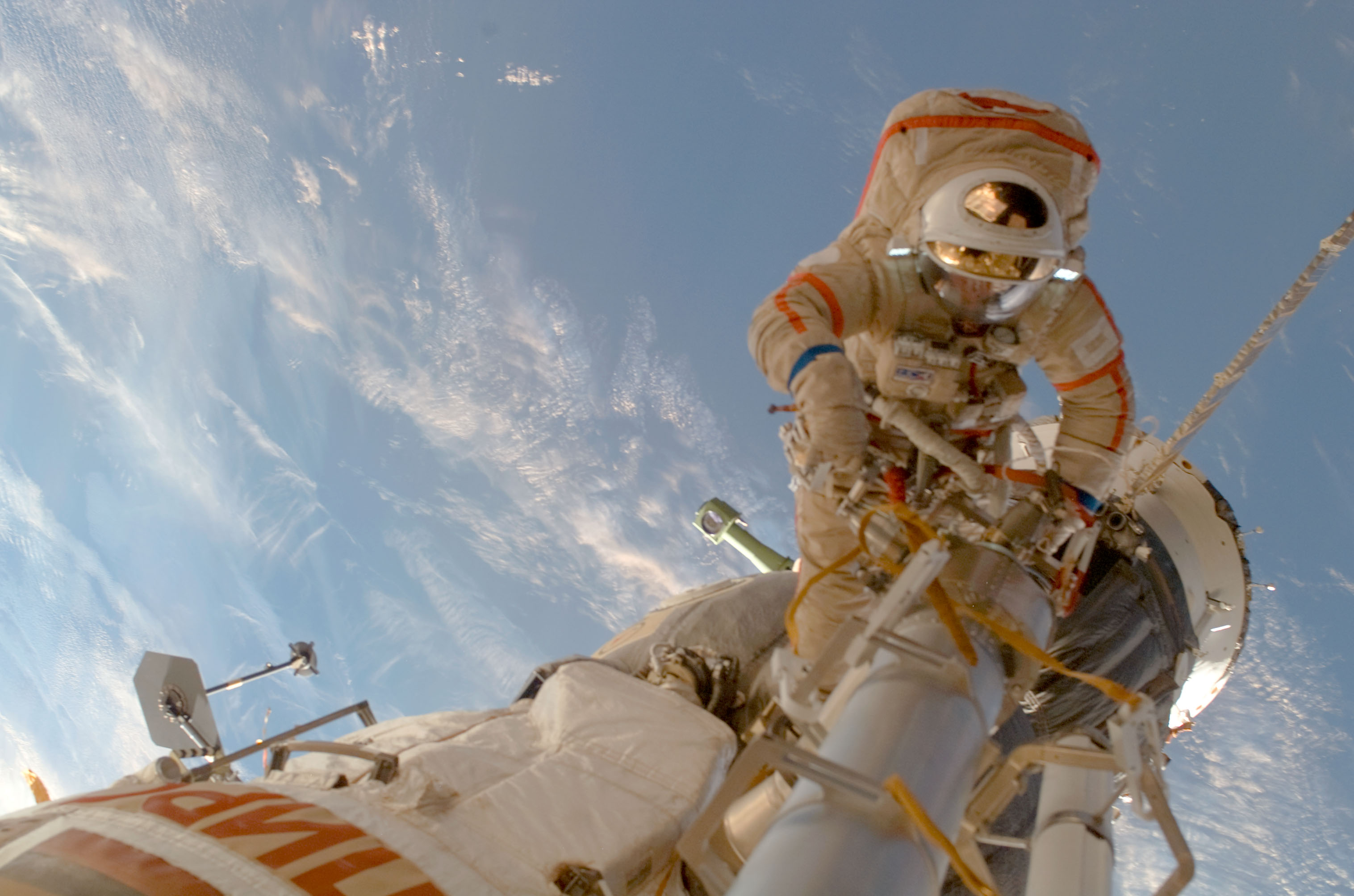 Russian Federal Space Agency cosmonaut Sergei Volkov, Expedition 17 commander, participates in a session of extravehicular activity (EVA) as construction and maintenance continue on the International Space Station. During the five-hour, 54-minute spacewalk, Volkov and cosmonaut Oleg Kononenko (out of frame), flight engineer, continued to outfit the station's exterior, including the installation of a docking target on the Zvezda Service Module.